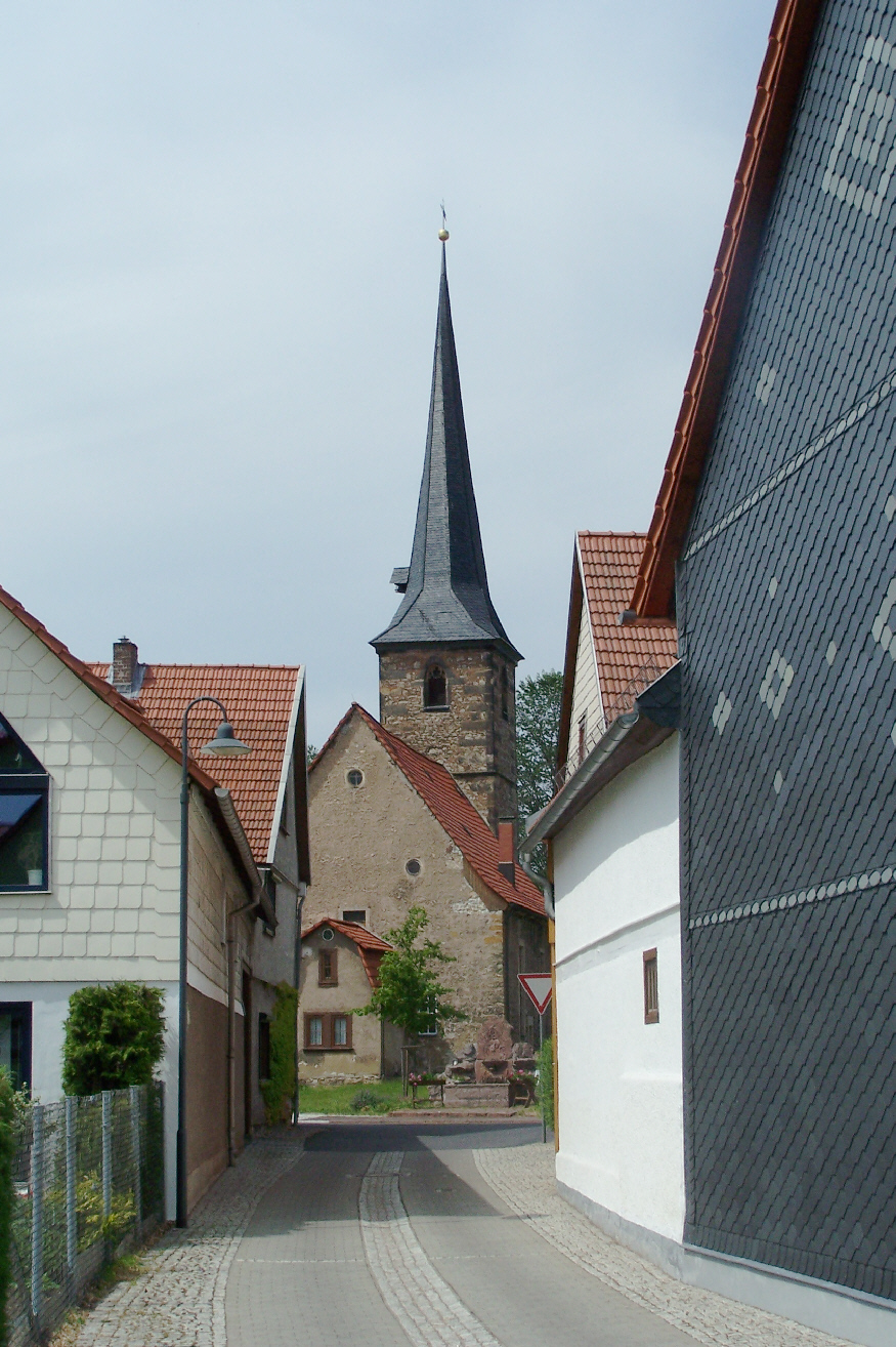 The church in Ernstroda village in Thuringia.